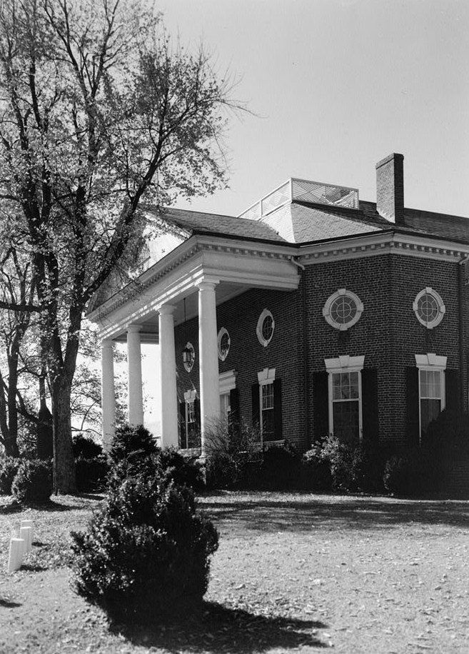 Farmington, U.S. Route 250 vicinity, Charlottesville vicinity (Albemarle County, Virginia) cropped This file comes from the Historic American Buildings Survey (HABS), Historic American Engineering Record (HAER) or Historic American Landscapes Survey (HALS). These are programs of the National Park Service established for the purpose of documenting historic places. Records consist of measured drawings, archival photographs, and written reports. When reusing please credit: Library of Congress, Prints & Photographs Division, VA,2-CHAR.V,4-1 This tag does not indicate the copyright status of the attached work. A normal copyright tag is still required. See Commons:Licensing for more information. This work is in the public domain in the United States because it is a work prepared by an officer or employee of the United States Government as part of that person’s official duties under the terms of Title 17, Chapter 1, Section 105 of the US Code. See Copyright. Note: This only applies to original works of the Federal Government and not to the work of any individual U.S. state, territory, commonwealth, county, municipality, or any other subdivision. This template also does not apply to postage stamp designs published by the United States Postal Service since 1978. (See § 313.6(C)(1) of Compendium of U.S. Copyright Office Practices). It also does not apply to certain US coins; see The US Mint Terms of Use. This file has been identified as being free of known restrictions under copyright law, including all related and neighboring rights.